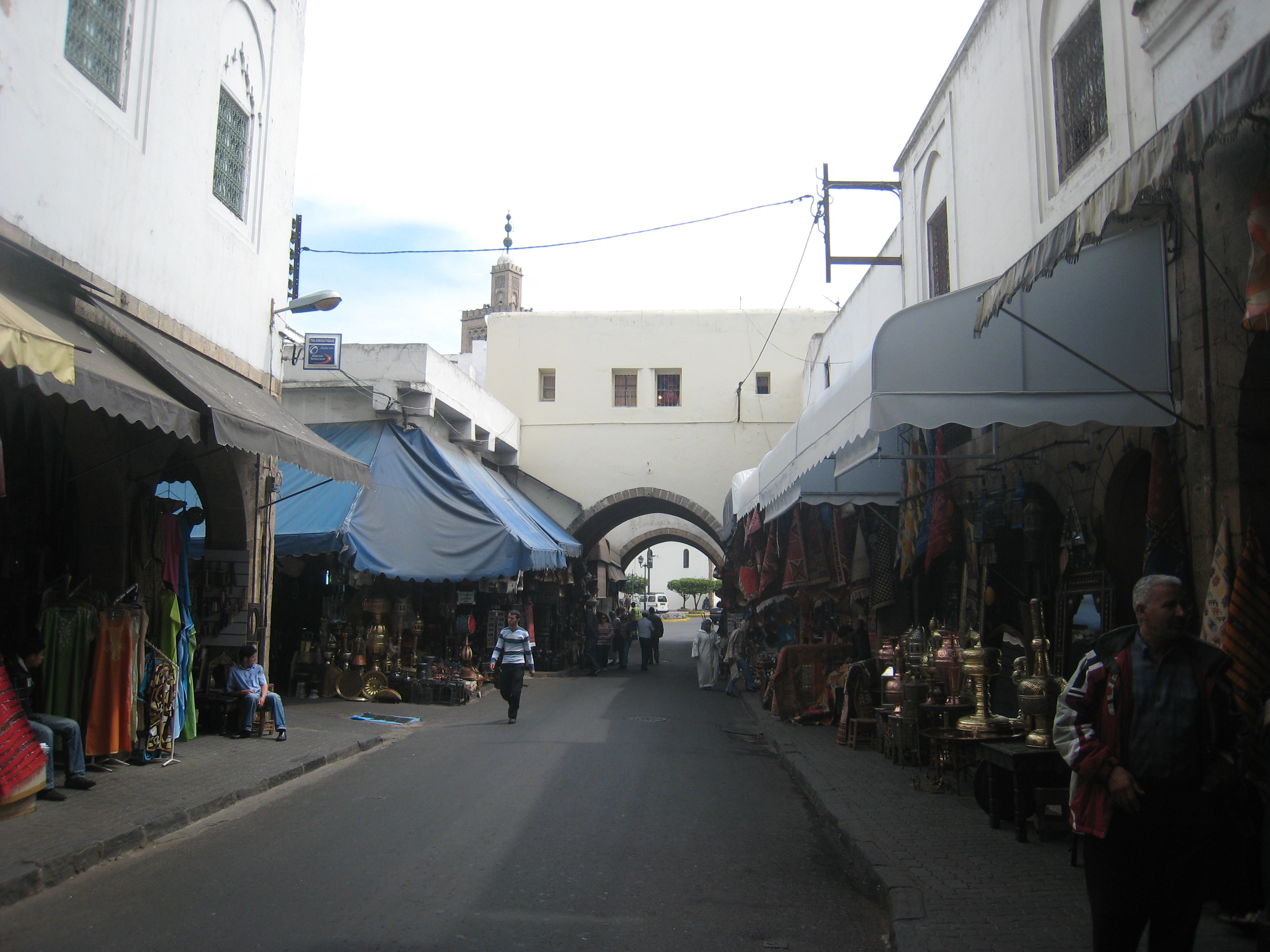 Habbous.